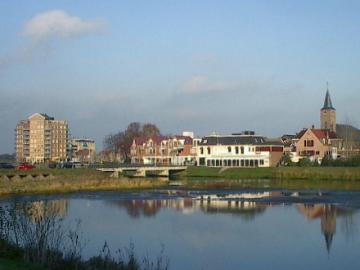 The Dutch town Hardenberg